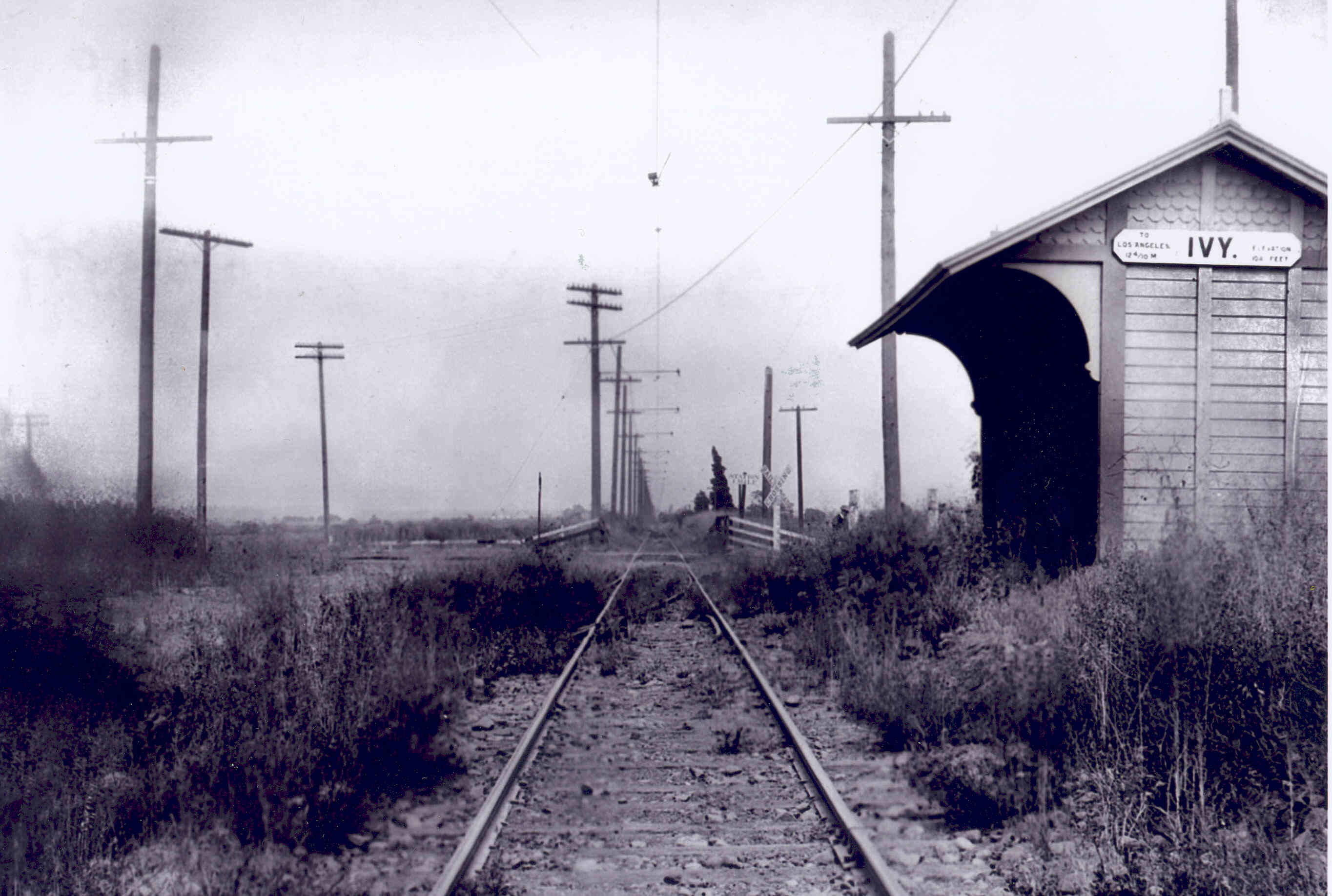 At the current location of the Culver City station of Los Angeles Metro's Exposition light rail line, this is a westbound view of "Ivy Station" in Culver City, California circa 1905. Located near the corner of Venice and Robertson Boulevards, the station was later renamed Culver Junction with the addition of a line down Venice Blvd in the late 1900's and eventually closed in 1953 with abandonment of the Santa Monica Air Line.